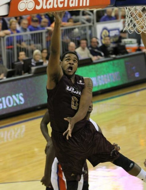 Marvin Williams Scored 7 Points Louisiana-Monroe Basketball in Gville 2014/11/21